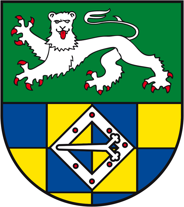 Coat of arms of Henau (Hunsrück)